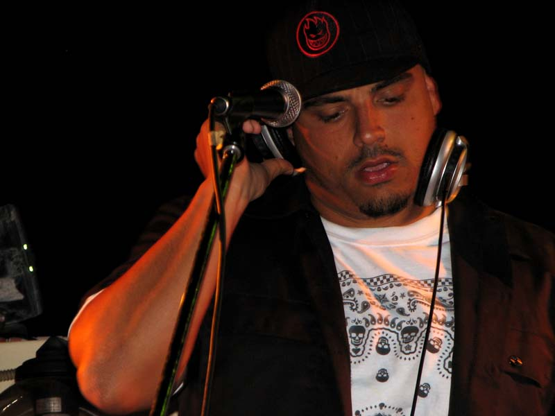 Squarta, dj from Italy